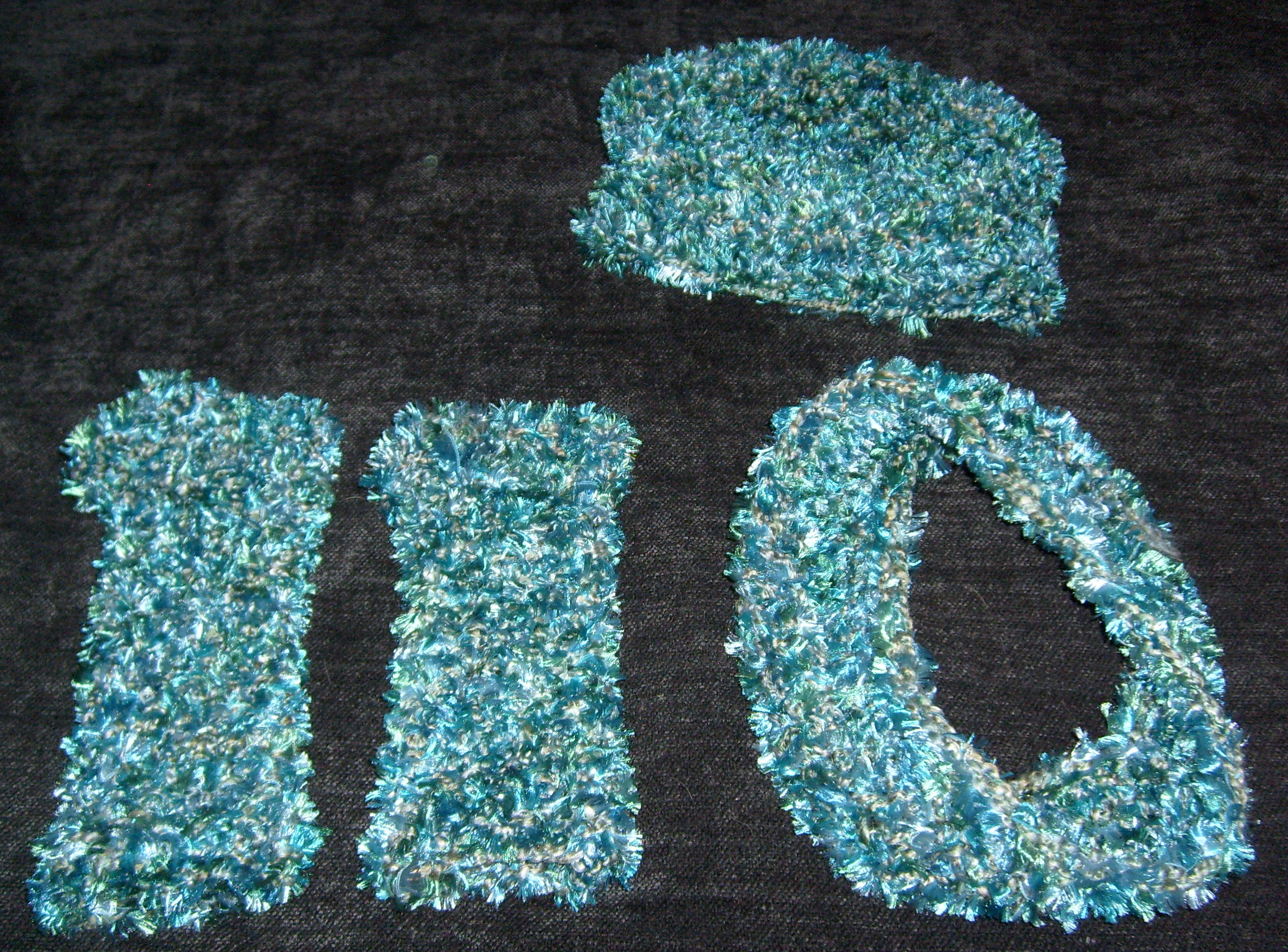 Crochet clothing set made from novelty yarn using a stabilizing yarn to ease manufacture: hat, fingerless gloves, and scarf. Acrylic. Original design.